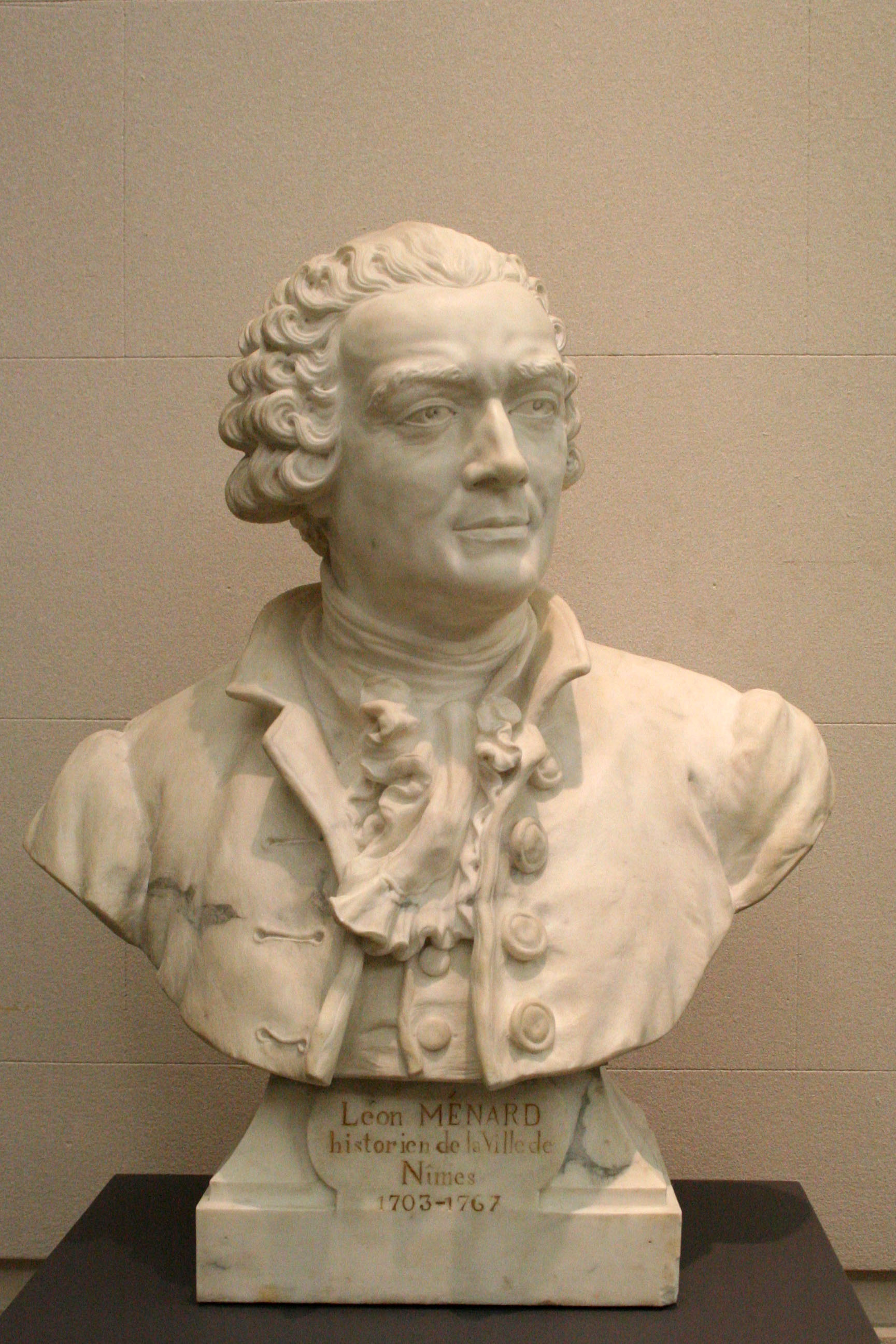 Bust